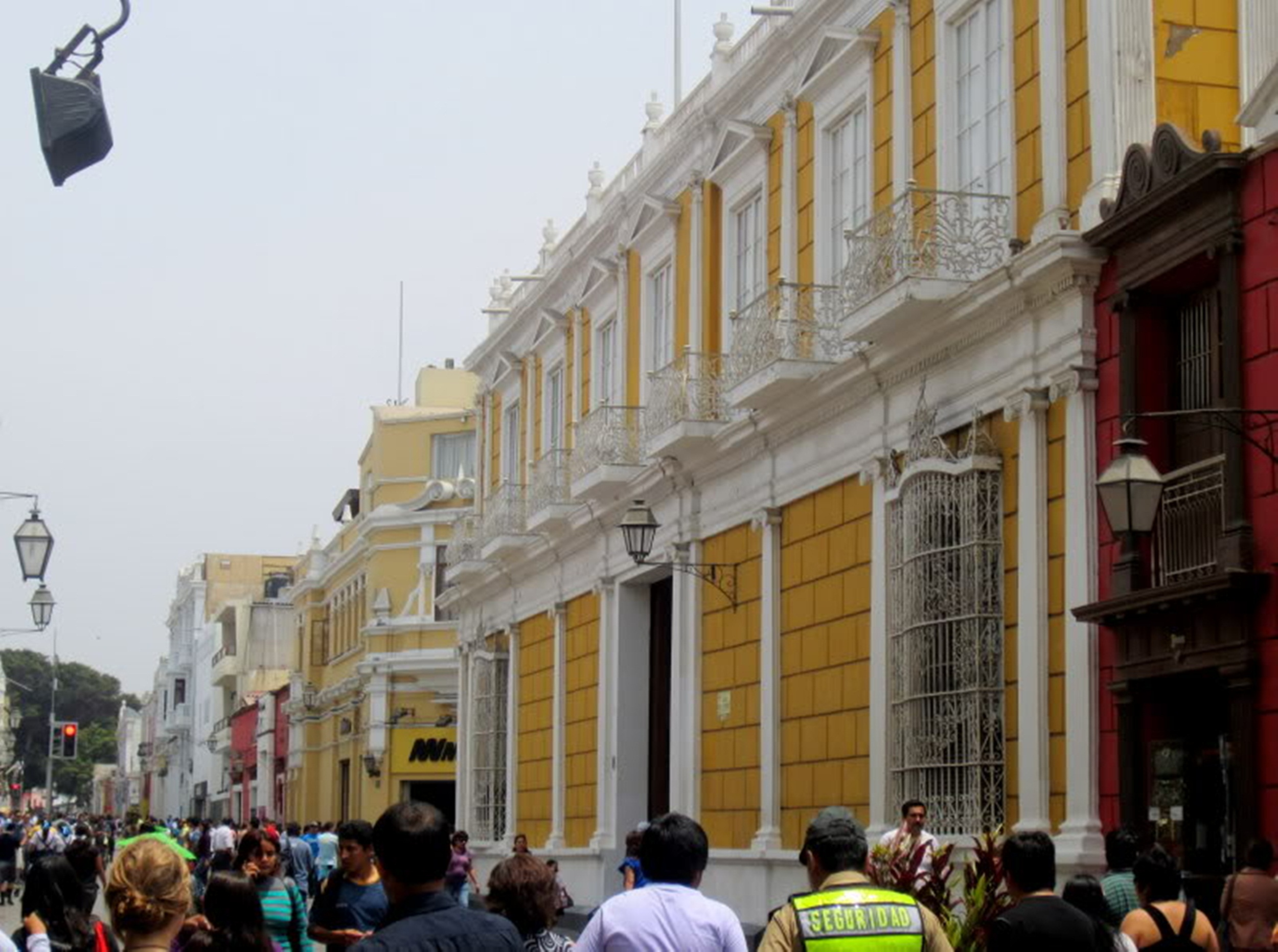 Pedestrian Street in Trujillo